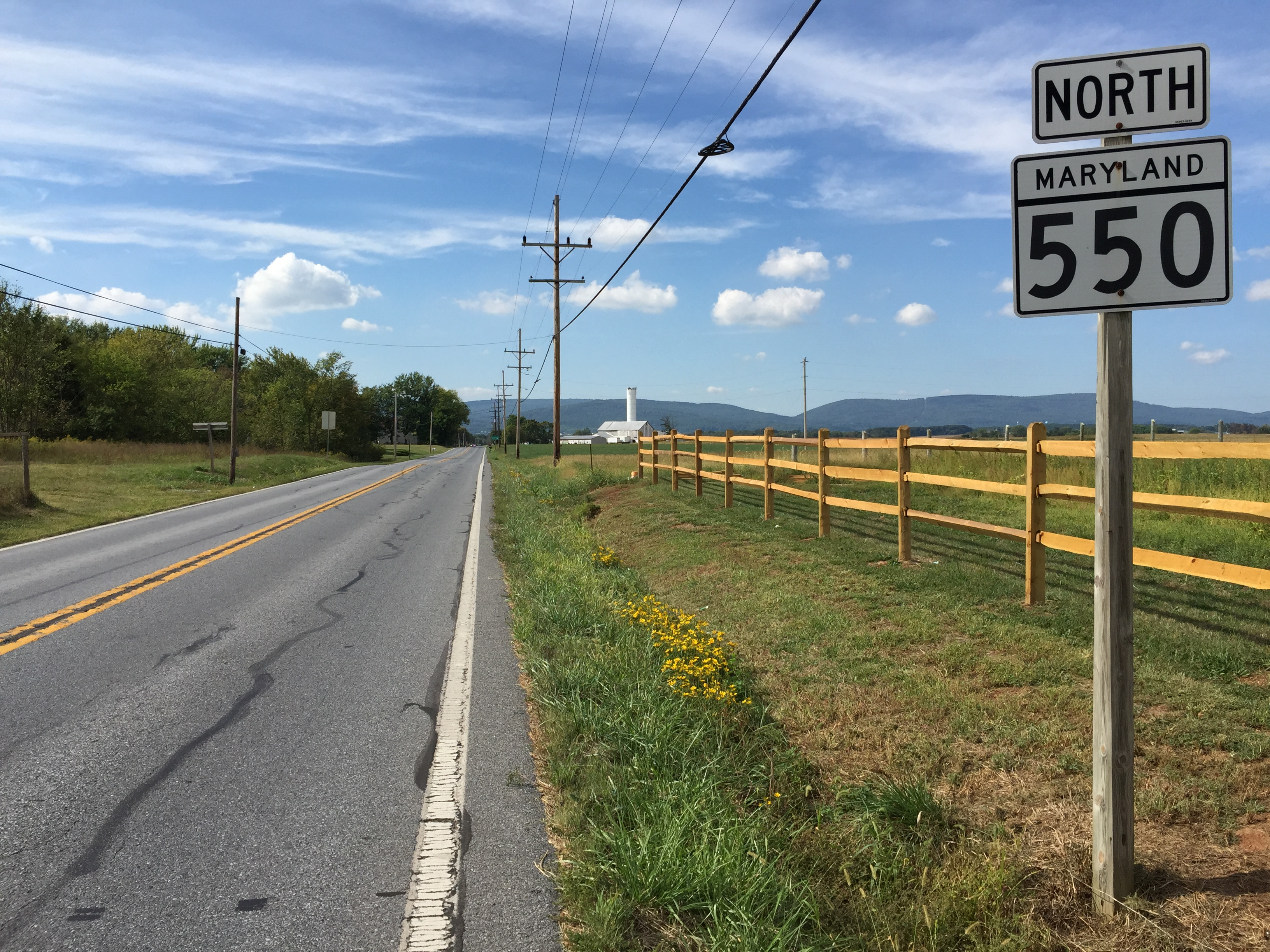 View north along Maryland State Route 550 (Creagerstown Road) just north of Longs Mill Road in Creagerstown, Frederick County, Maryland